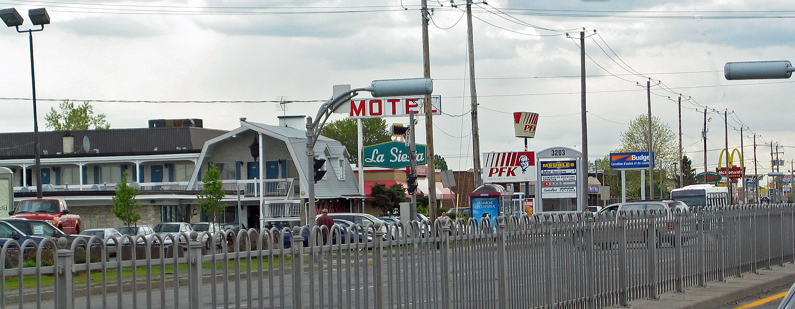 Taschereau Boulevard in Longueuil looking towards Laflèche from Greenfield Park.